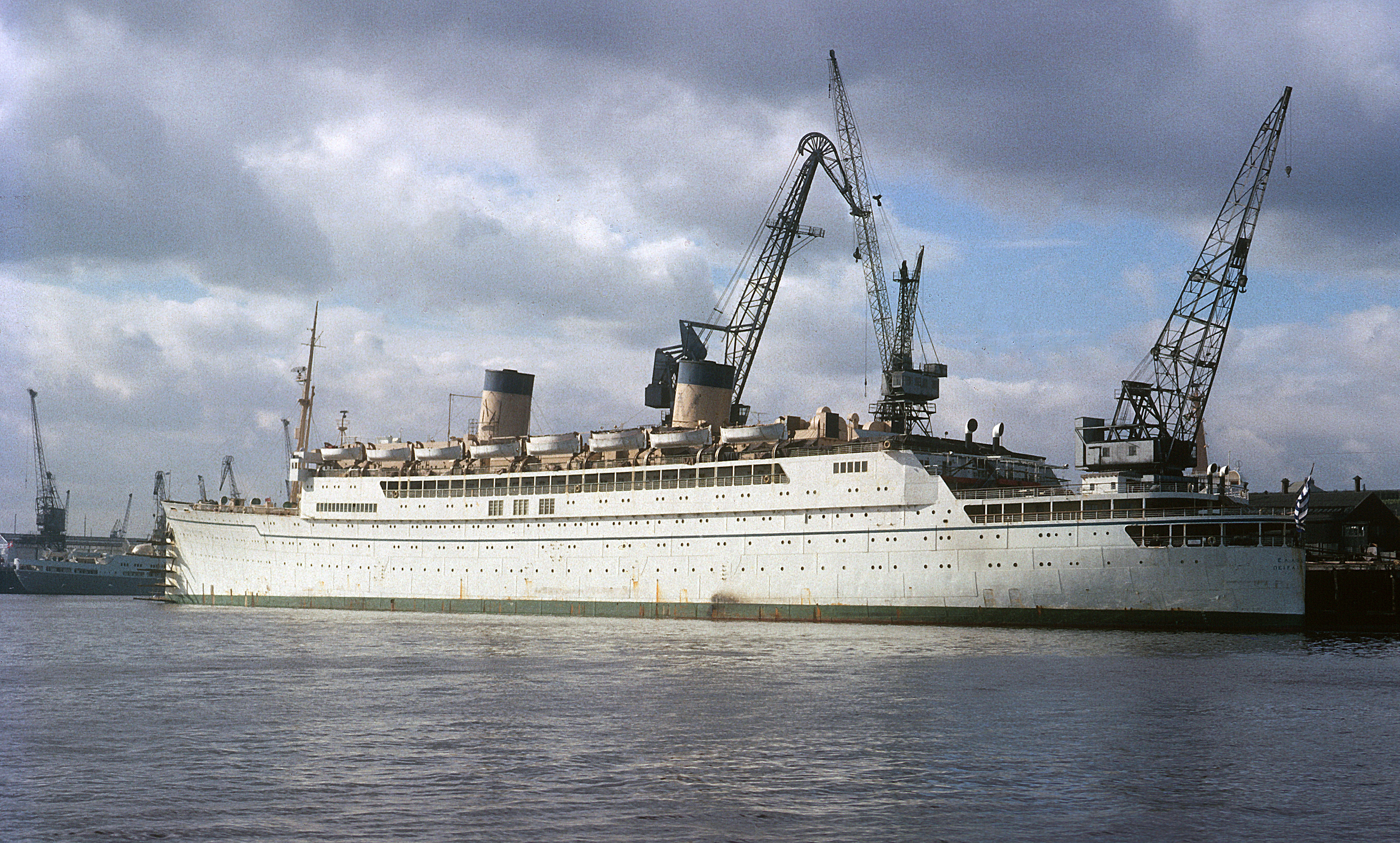 The liner Ellinis at the shipayrds Swan Hunter of Newcastle in 1963.